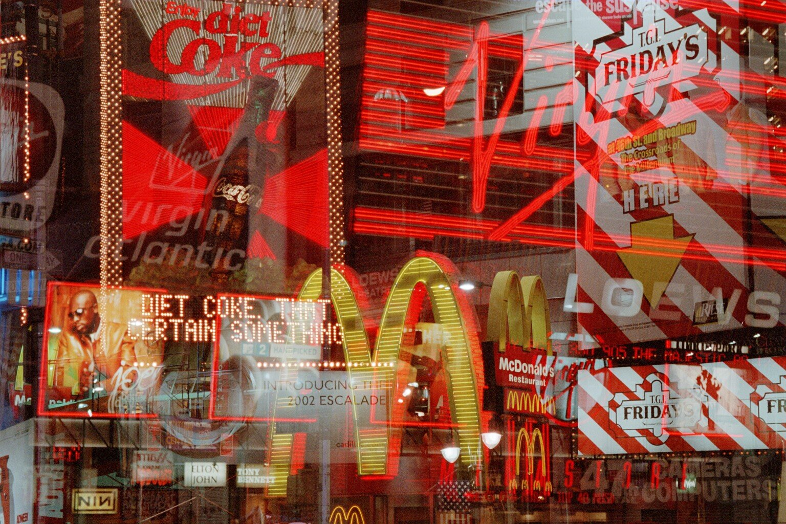 Advertising on Times Square, New York City